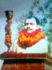 This image has been created and contributed by me in public domain. This is the image of the Statue of Bismil in Barbai village of Morena Distt in M.P. Krantmlverma ०९:२२, १ मई २०११ (UTC)